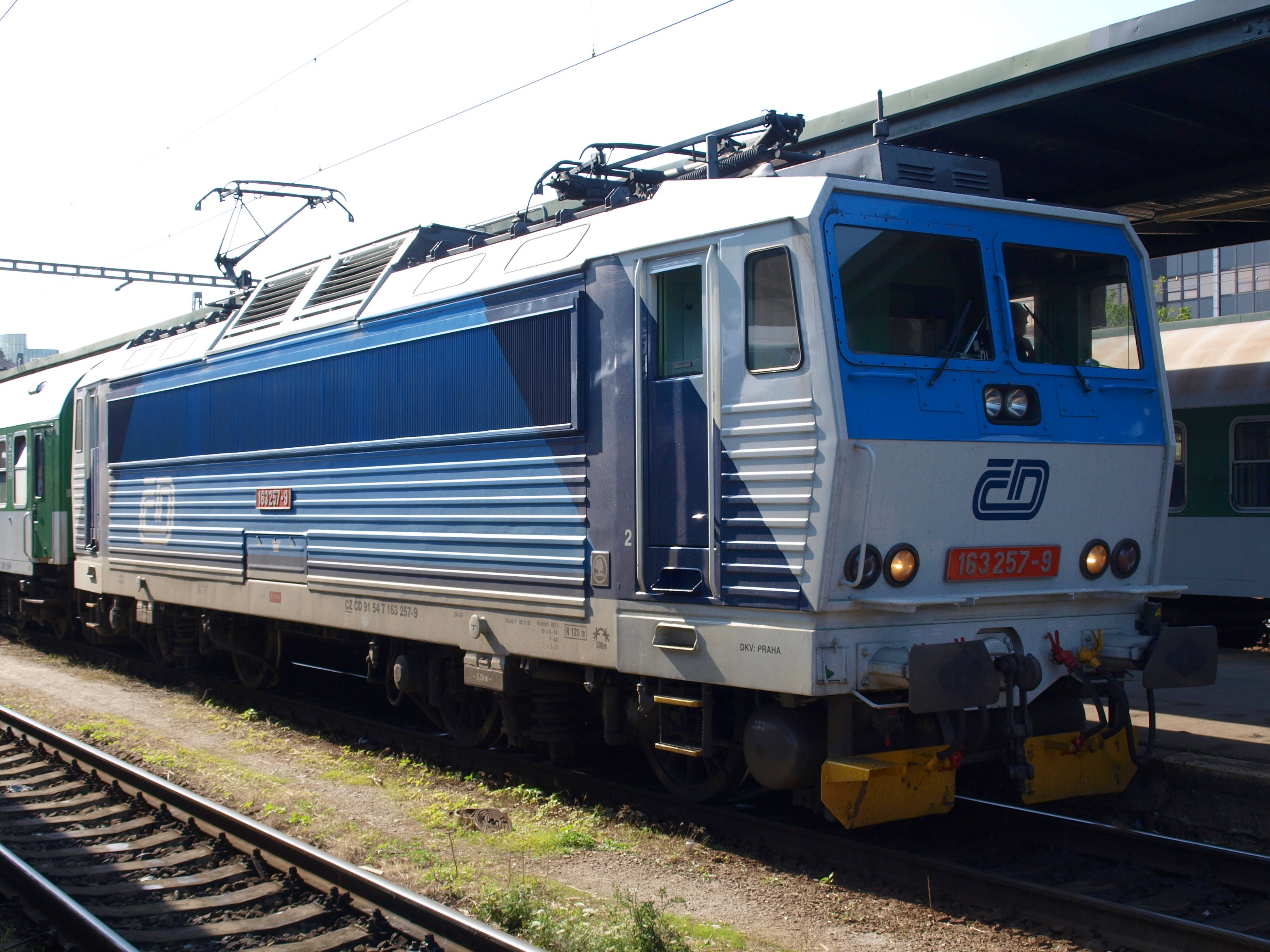 ČD Class 163 at Praha Masarykovo nádraží station